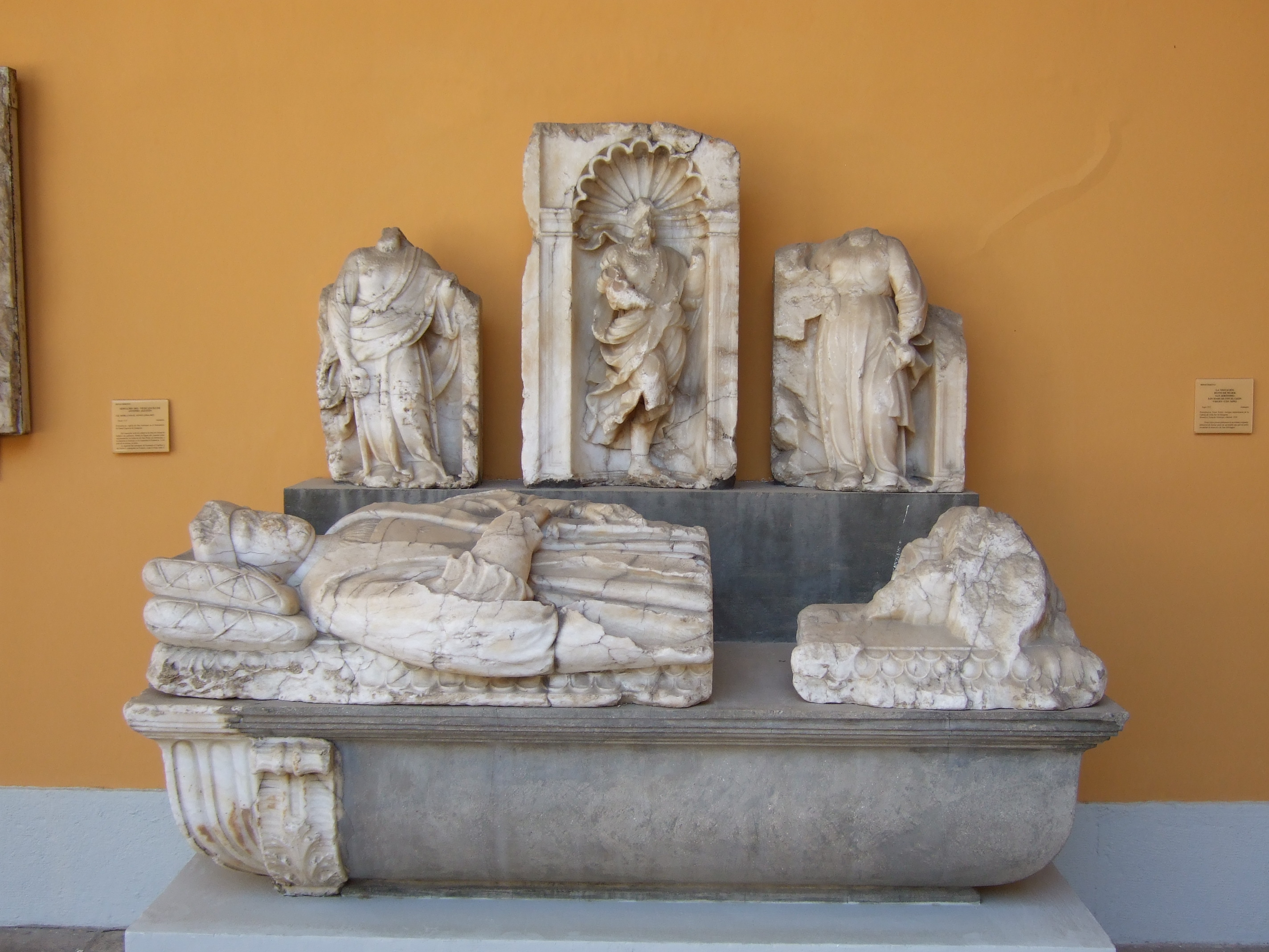 Rests of churcho of Our Lady of the Portillo. Burial of the vicechancellor Antonio Agustín (ca 1527). Alabaster. Museum of Zaragoza